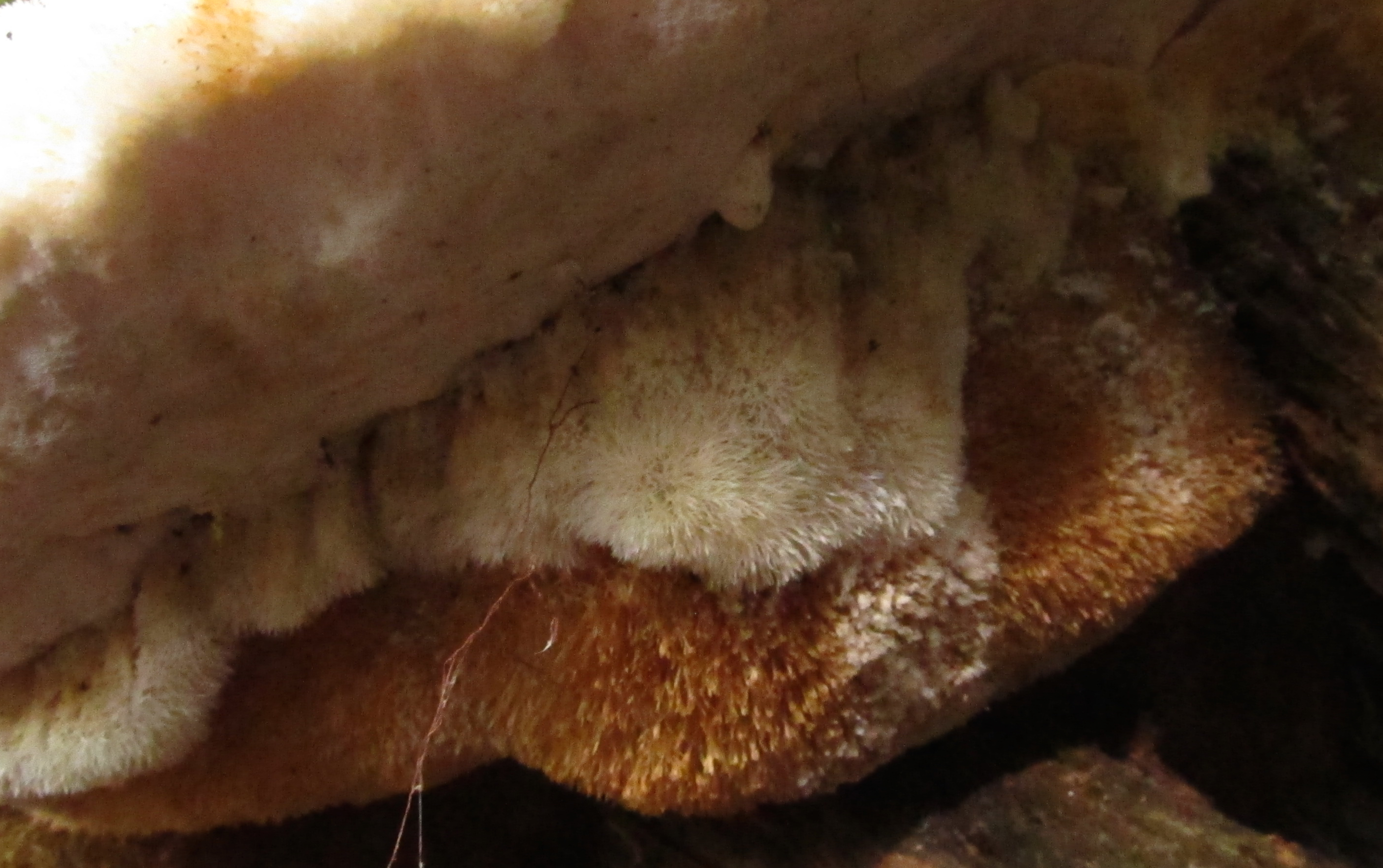 Closeup of the fuzzy conk surface of Bridgeoporus nobilissimus (W.B.Cooke) T.J.Volk, Burds. & Ammirati. Specimen found in Humboldt Co., California, USA.